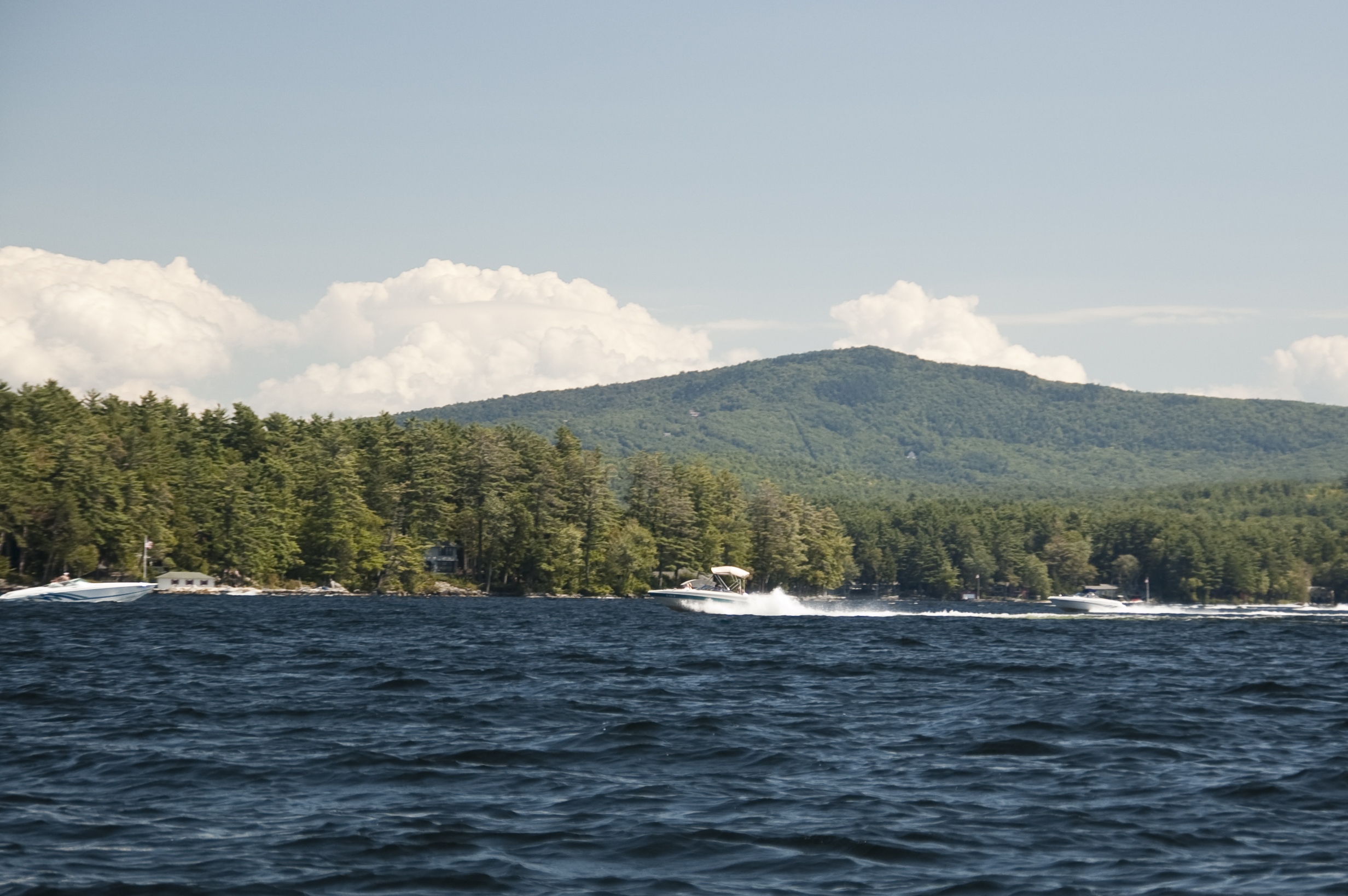 Section of Lake Winnipesaukee. Saturation of colors is courtesy of the polarized filter.